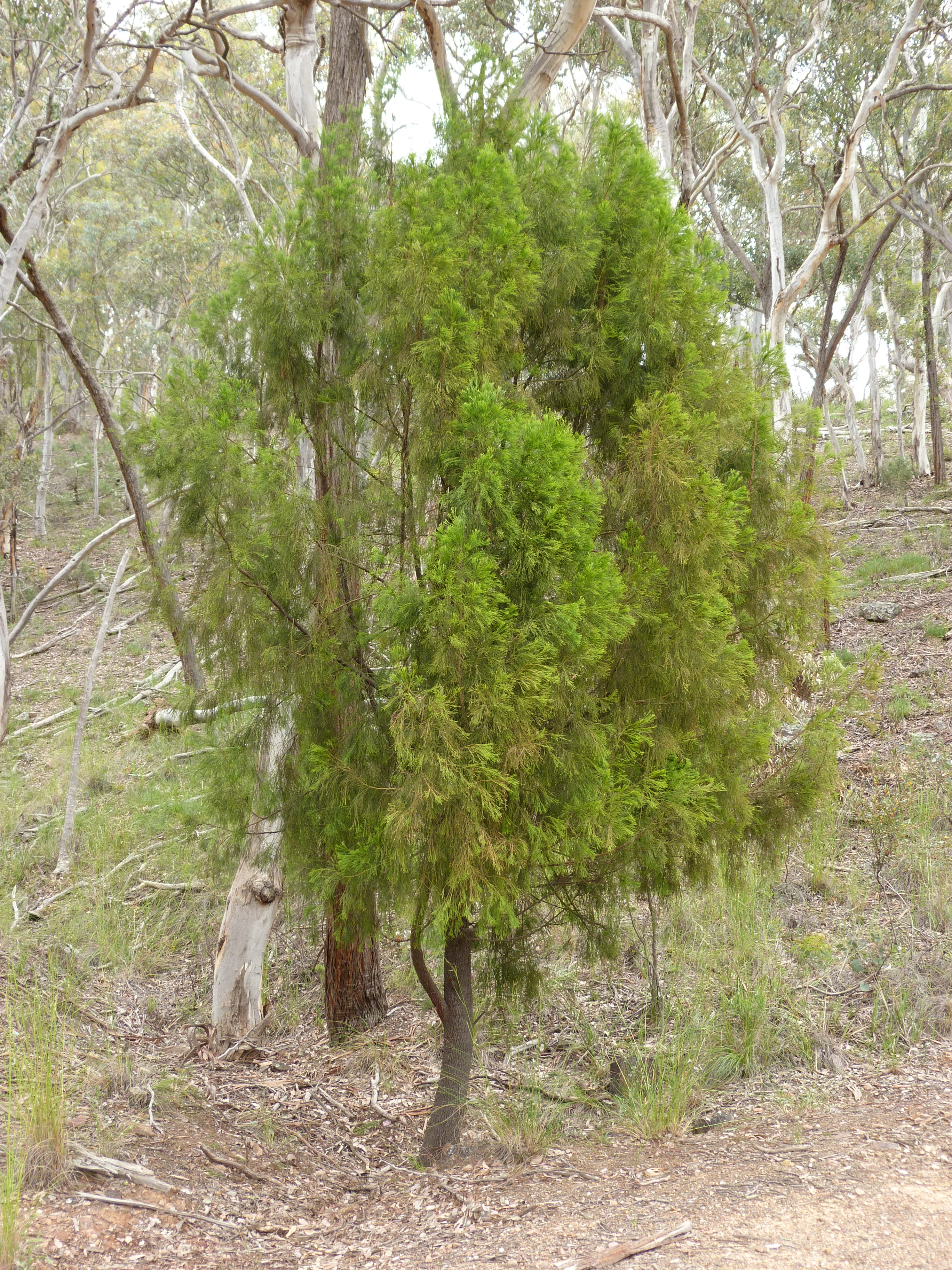 Exocarpos cupressiformis Labill., Black Mountain, Canberra, ACT, 5 November 2010